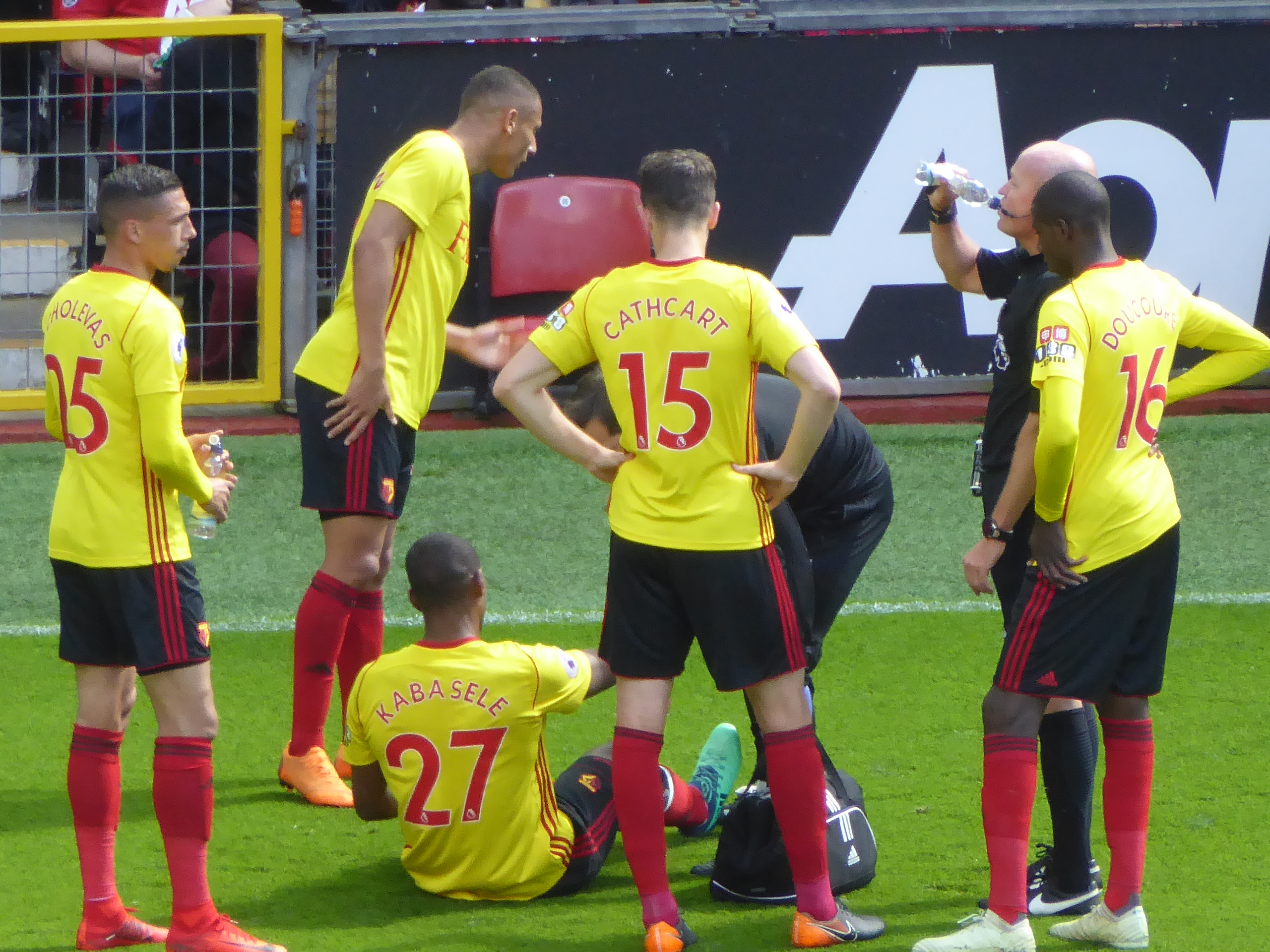 Manchester United v Watford (1-0), Premier League, Old Trafford, Metropolitan Borough of Trafford, Greater Manchester, England, 13 May 2018